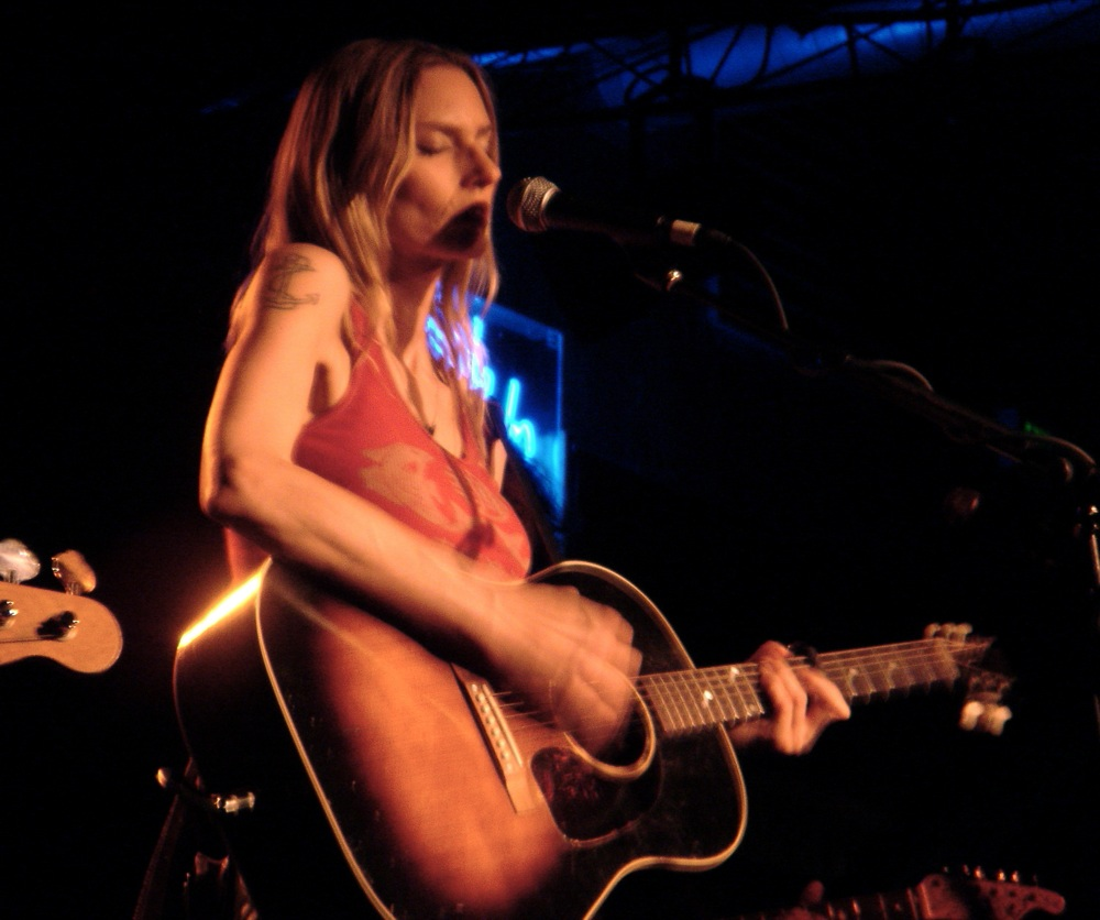 Aimee playing your Gibson J-45